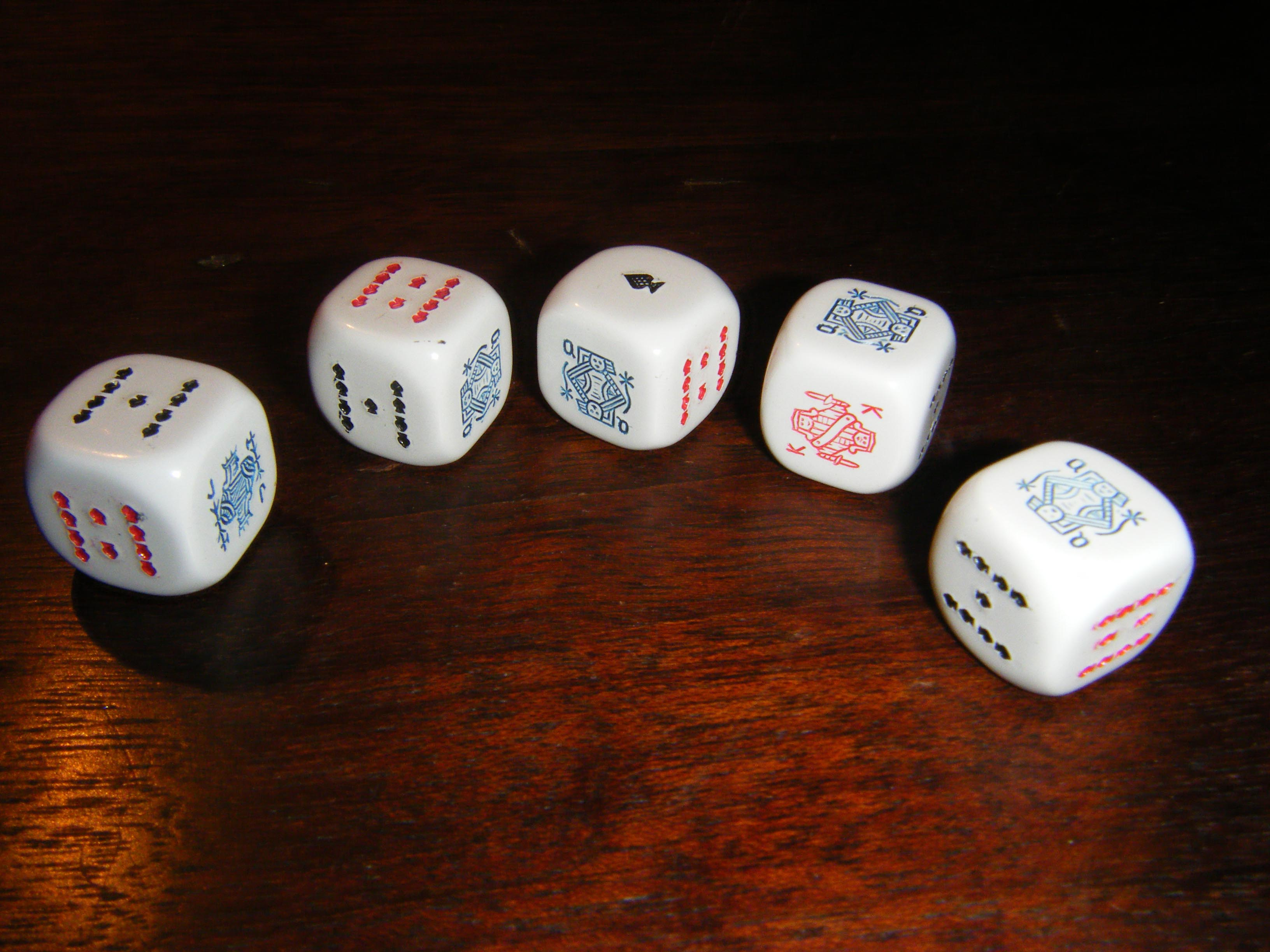 Dice for Poker